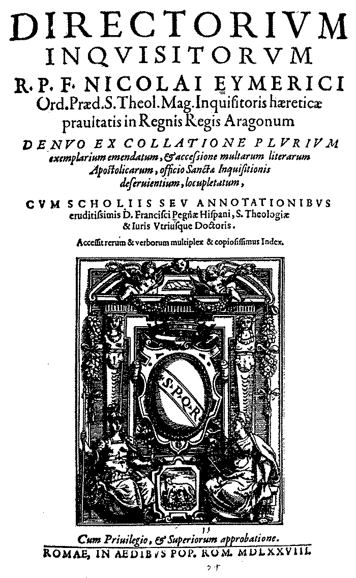 Title page of "Directorivm Inquisitorvm", Rome, 1578.